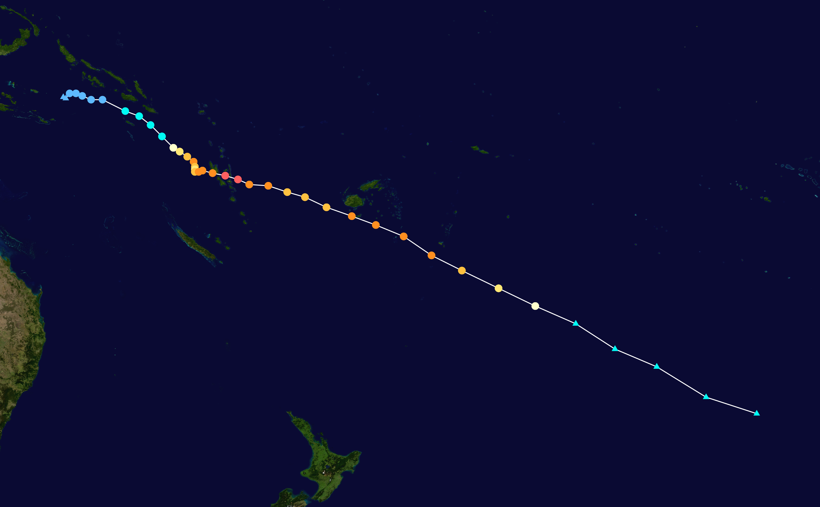 Track map of Severe Tropical Cyclone Harold of the 2019-20 Australian region cyclone season and the 2019-20 South Pacific cyclone season. The points show the location of the storm at 6-hour intervals. The colour represents the storm's maximum sustained wind speeds as classified in the Saffir–Simpson scale (see below), and the shape of the data points represent the nature of the storm, according to the legend below. Saffir–Simpson scale Tropical depression≤38 mph≤62 km/h Category 3111–129 mph178–208 km/h Tropical storm39–73 mph63–118 km/h Category 4130–156 mph209–251 km/h Category 174–95 mph119–153 km/h Category 5≥157 mph≥252 km/h Category 296–110 mph154–177 km/h Unknown Storm type Tropical cyclone Subtropical cyclone Extratropical cyclone / Remnant low / Tropical disturbance / Monsoon depression